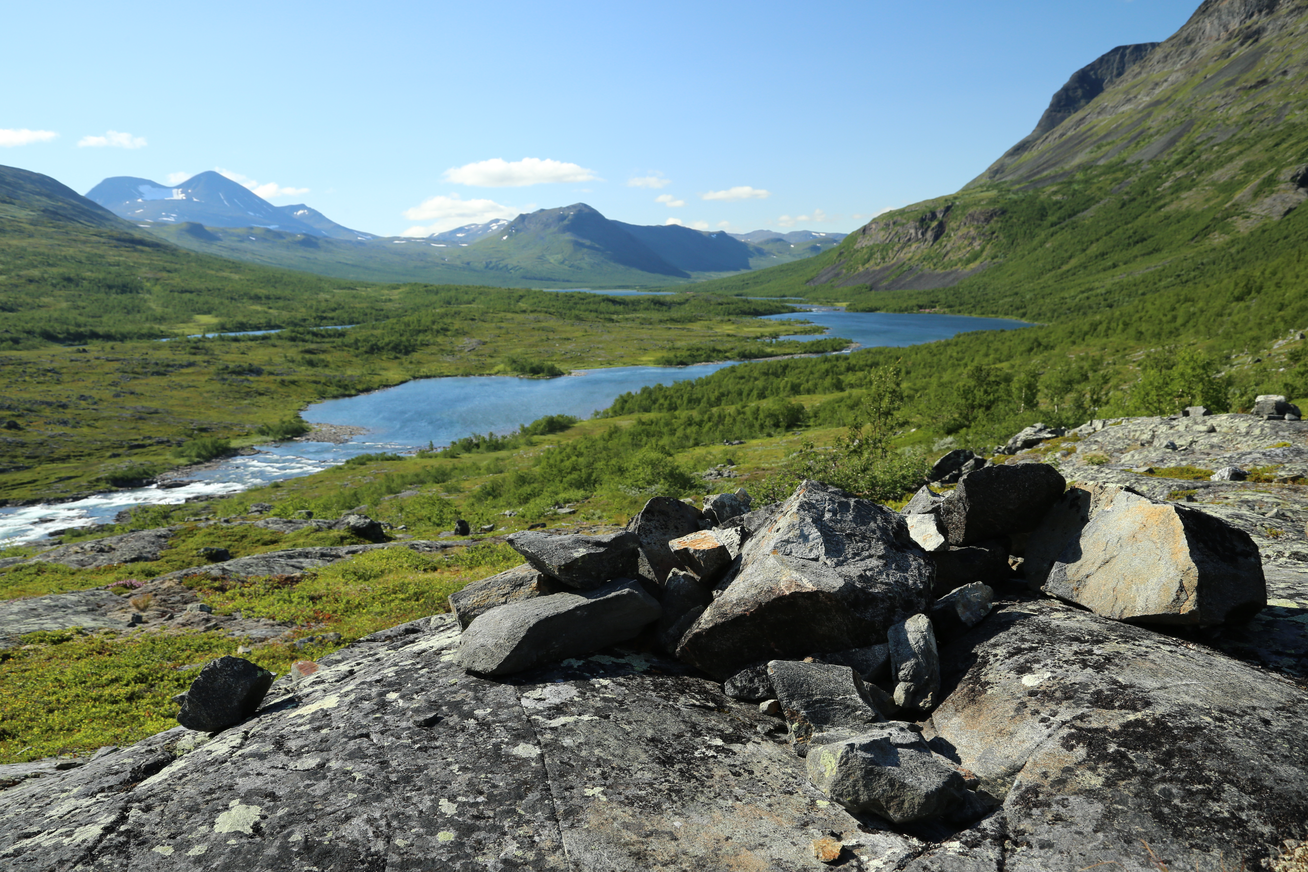 Padjelantaleden, Nordkalottleden and Áhkká massif in Sweden, in July or August 2014. This photograph is part of a series, which can be found in full in Category:Padjelantaleden and Nordkalottleden Trip in 2014. Some files have GPS coordinates associated, for others, the following overview might be helpful: Click here for approximate location at each date 25.7. Kvikkjokk and Njunjes 26.7. Njunjes and Tarrekaise 27.7. Tarrekaise and Sammerlappa, before the entrance to Padjelanta National Park 28.7. Tarraluoppal 29.7. Tuattar 30.7. Staloluokta 31.7. Arasluokta 1.8. Låddejåkkå 2.8. Kutjaure (Nordkalottleden) 3.8 + 4.8. Akkajaure, Akka mountains (Nordkalottleden and Padjelantaleden)